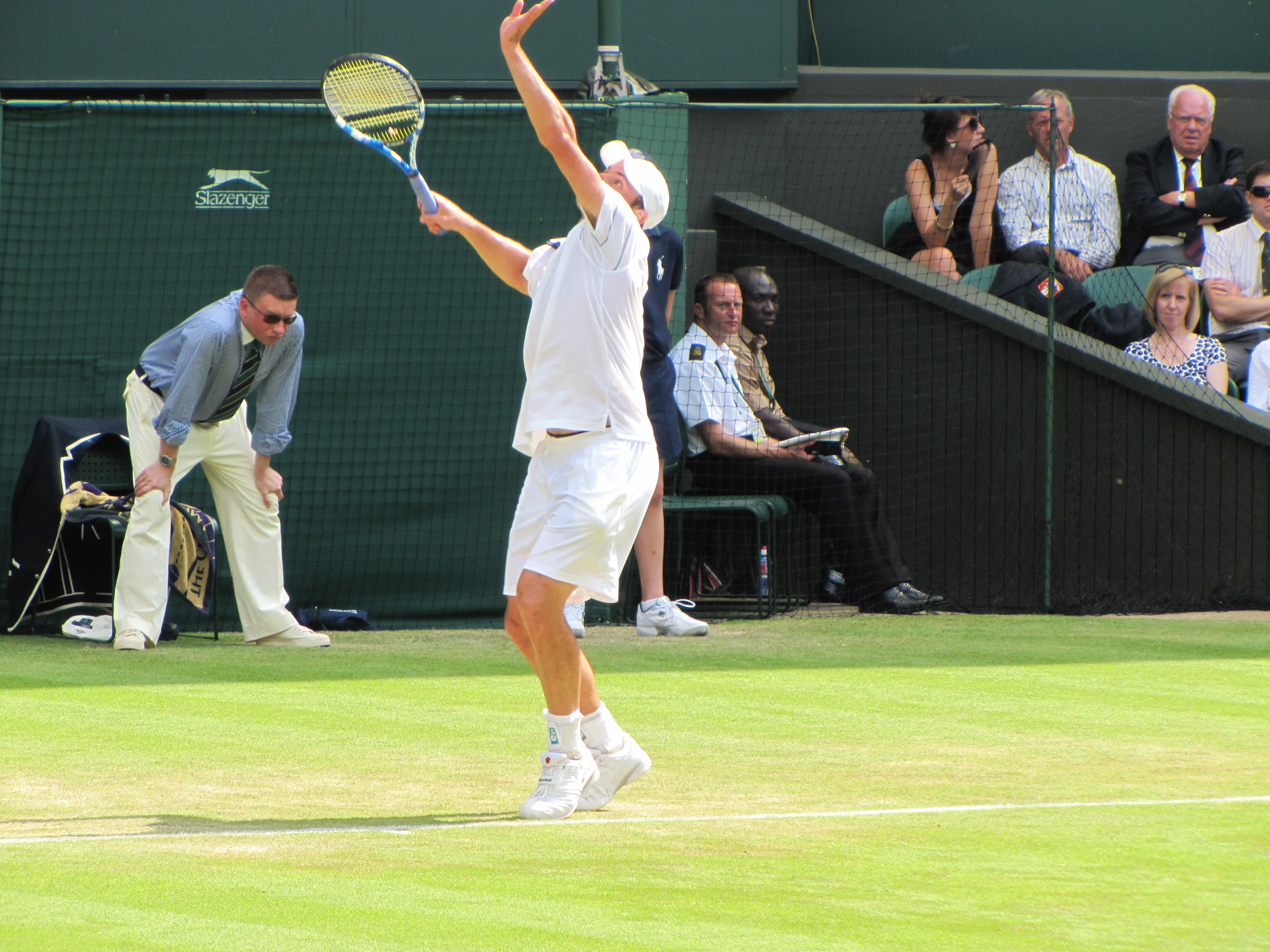 Andy Roddick, 2010 Wimbledon Championships